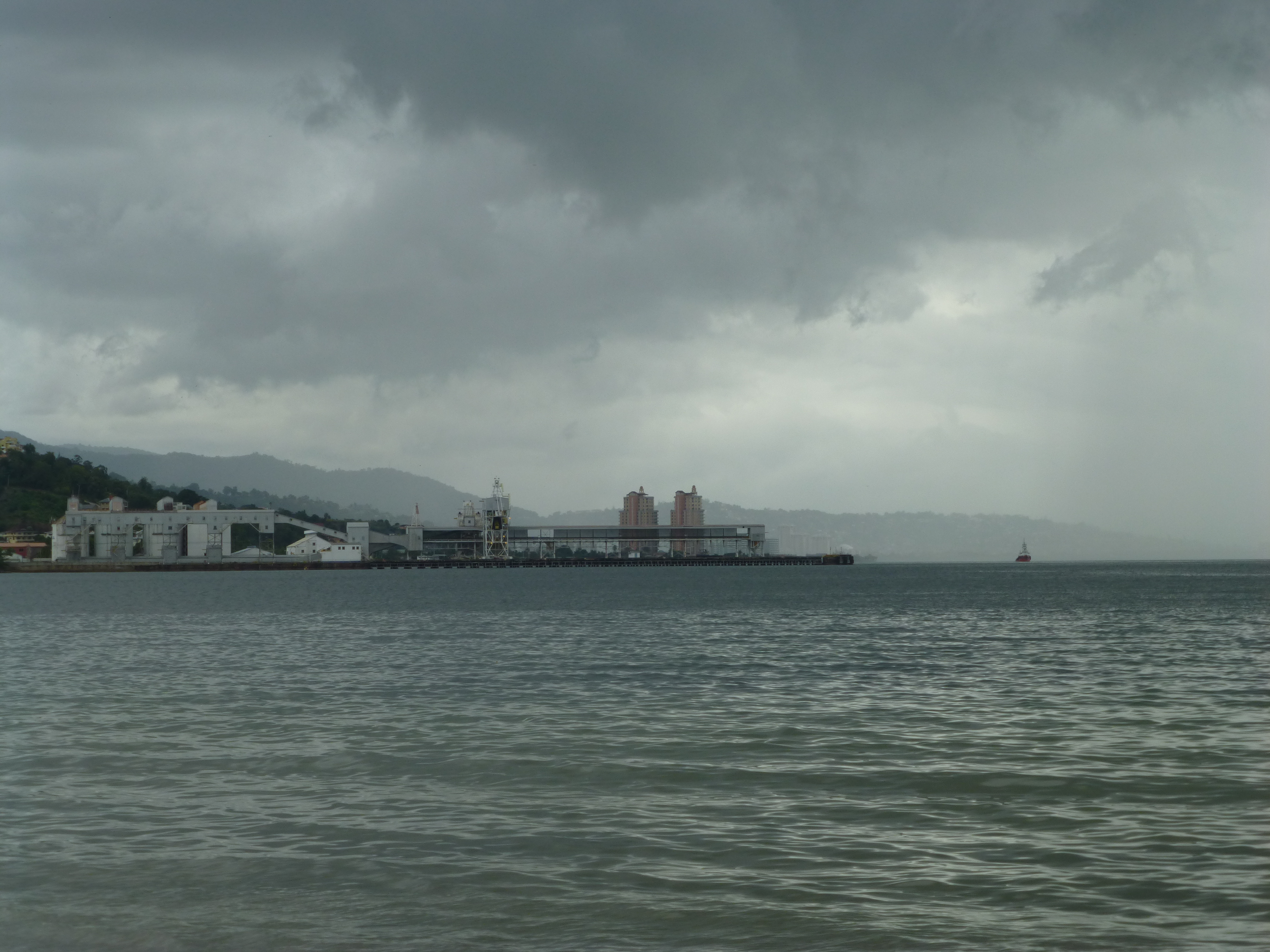 Alcoa Tembladora Transfer Station, Chaguaramas, Trinidad. Loads appr. 525.000 tons of alumina from Suriname for shipment throughout the world each year.